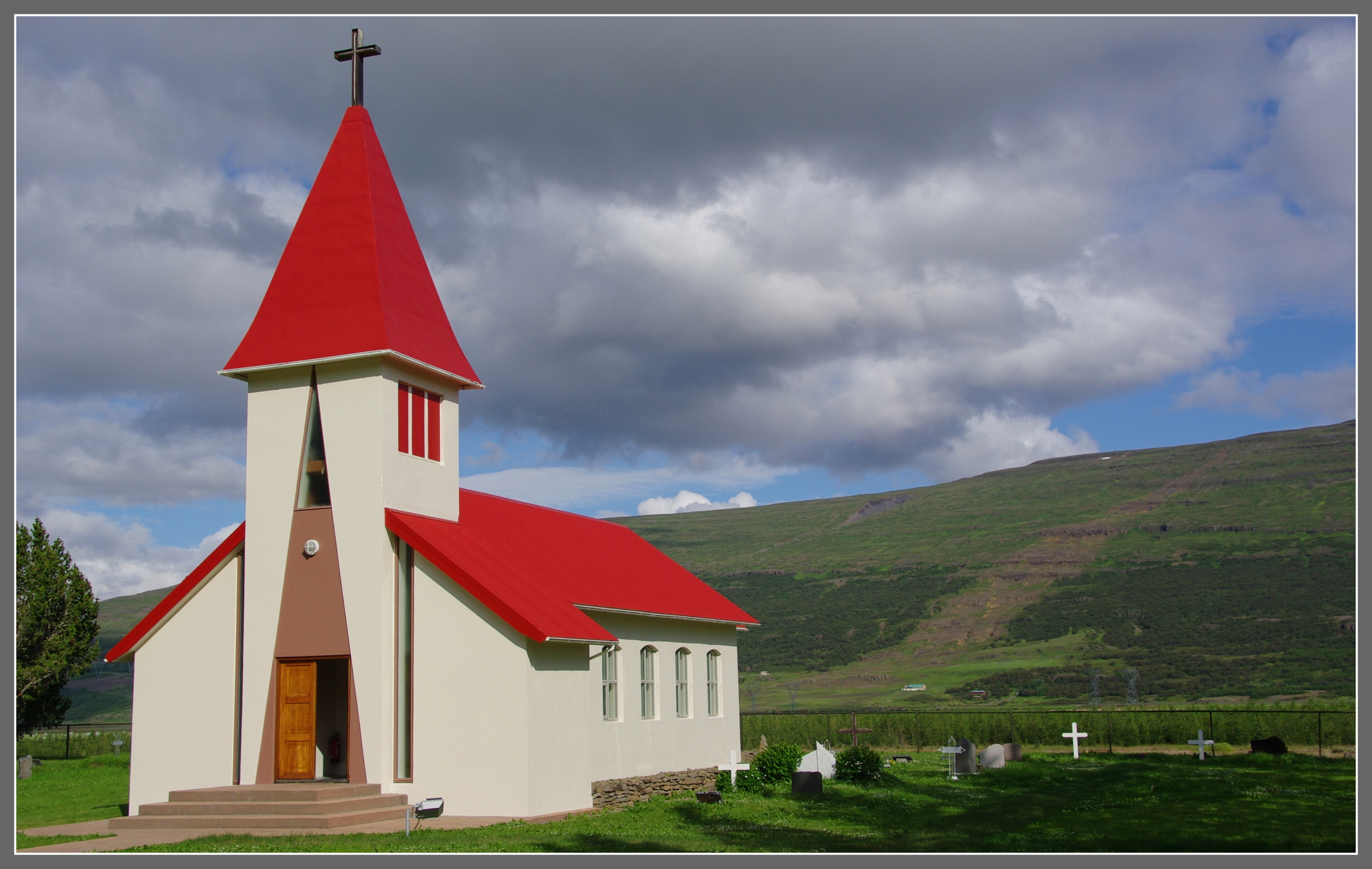 Unnamed Road, Iceland